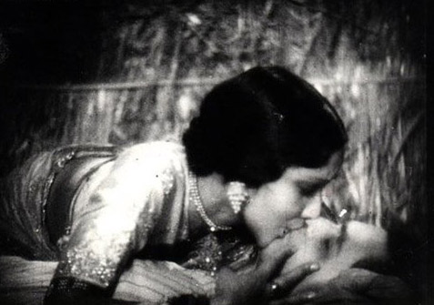 Devika Rani kissing Himanshu Rai in the film Karma (aka Fate) (1933). This is considered to be the longest kissing scene in the history of Hindi cinema.